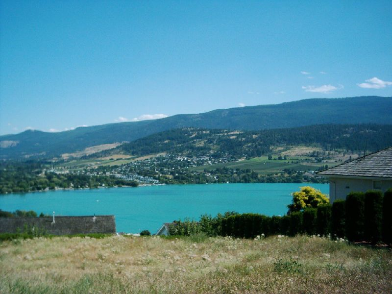 Kalamalka Lake in British Columbia- not a great shot, but the colour is amazing